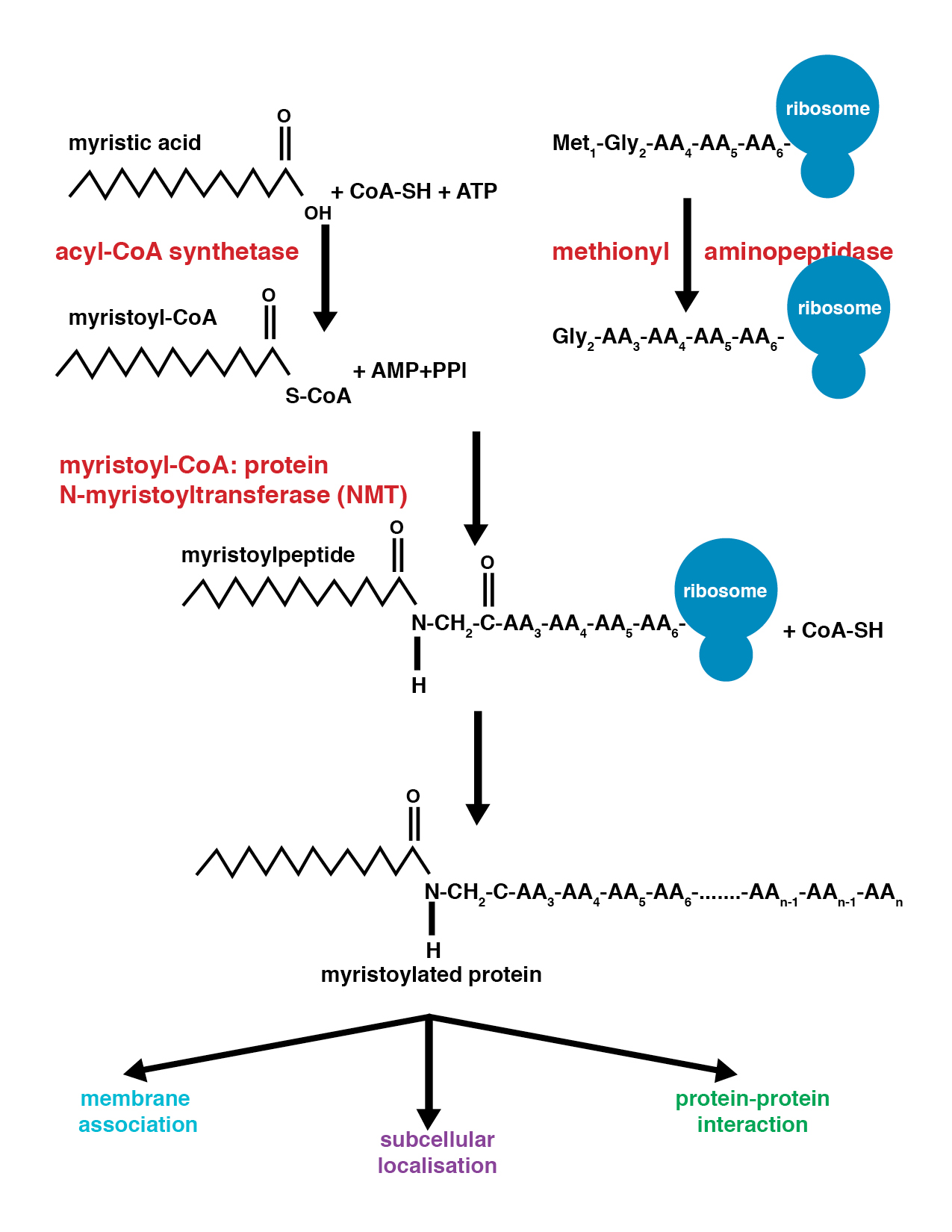 Schematic of myristoylation occurring co- and post- portein translation.